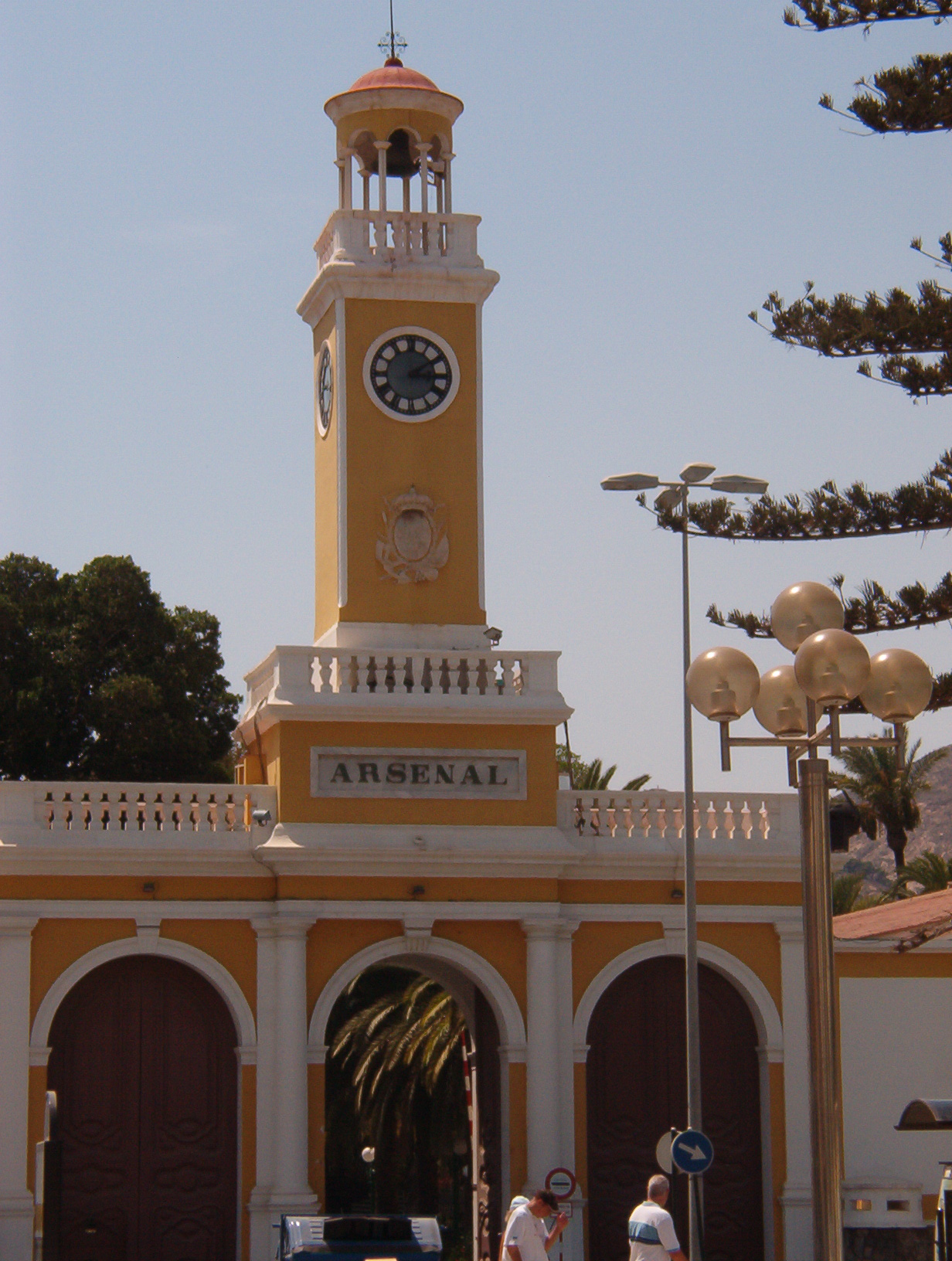 Arsenal de Cartagena